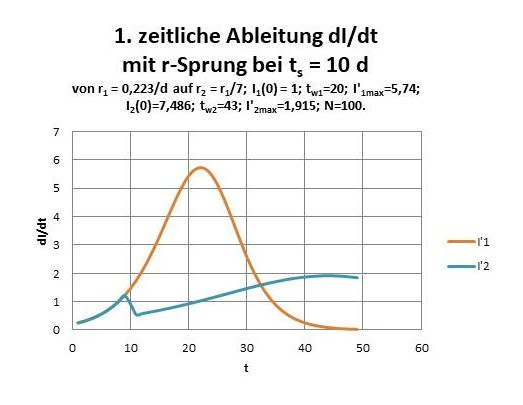 1. temporal derivation of the infected with r-jump